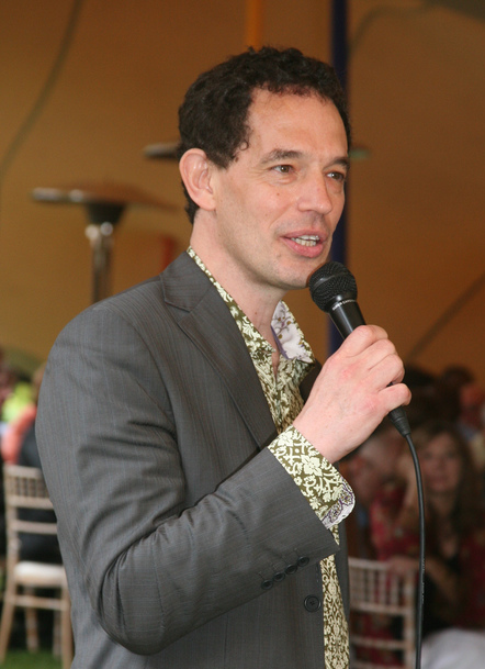 Neil Turok giving an address at the Residence of the British High Commissioner in Cape Town, South Africa